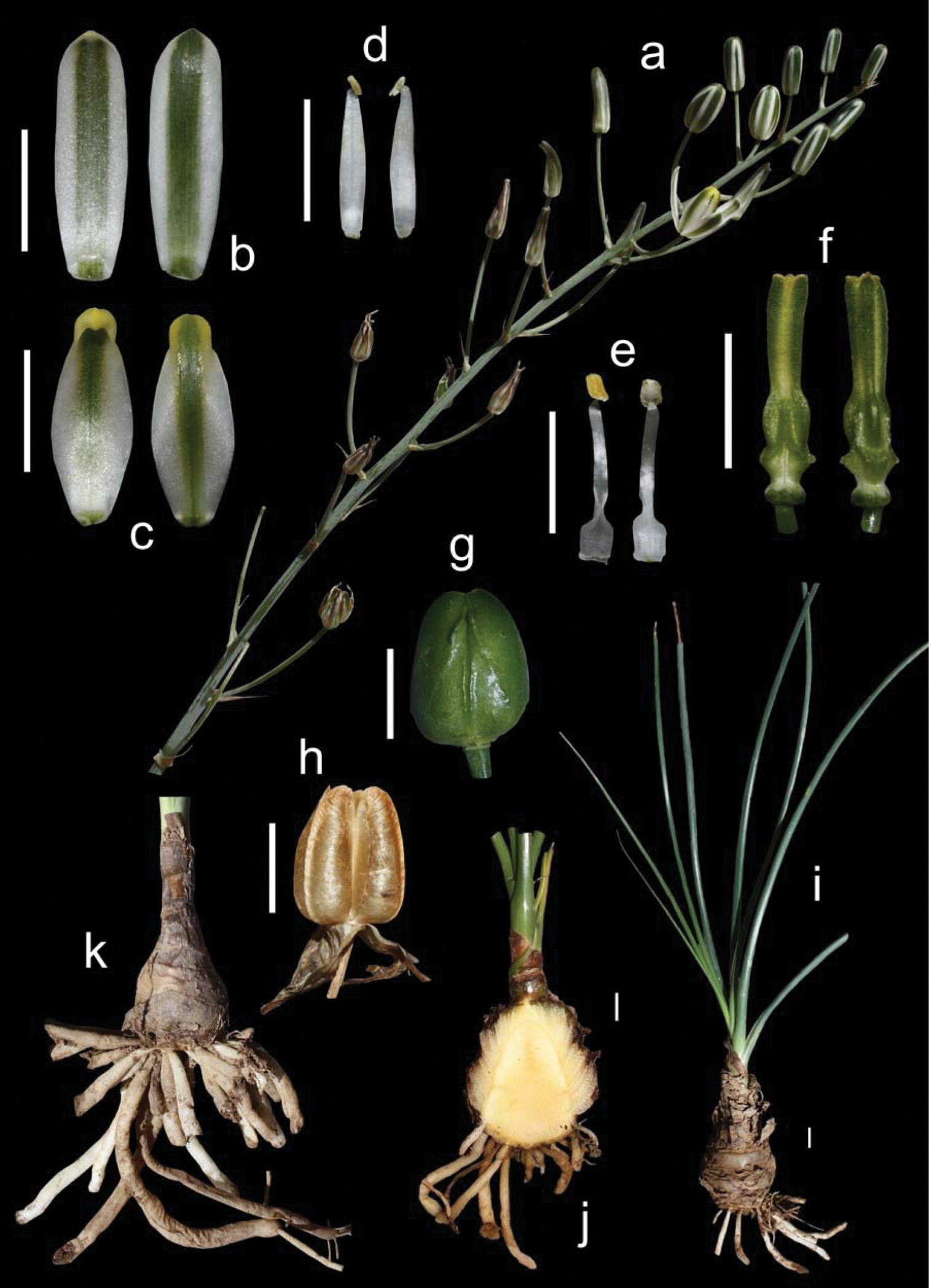 Albuca caudata Jacq. Eastern Cape, Redhouse (M. Martínez-Azorín, A.P. Dold & A. Martínez-Soler 45 GRA) a Inflorescence b Outer tepals c Inner tepals d Outer stamen e Inner stamen f Ovary, lateral views g Mature capsule h Dehiscing capsule i Bulb and leaves j Bulb in longitudinal section k Bulb with tuberose roots. Scales 1 cm.